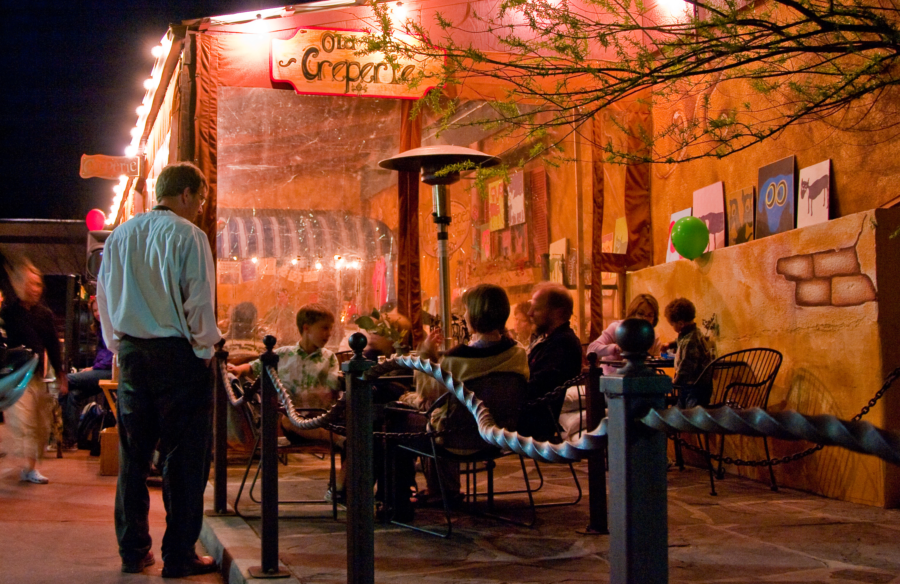 People enjoying nighttime light old creperie in Downtown Flagstaff, Arizona